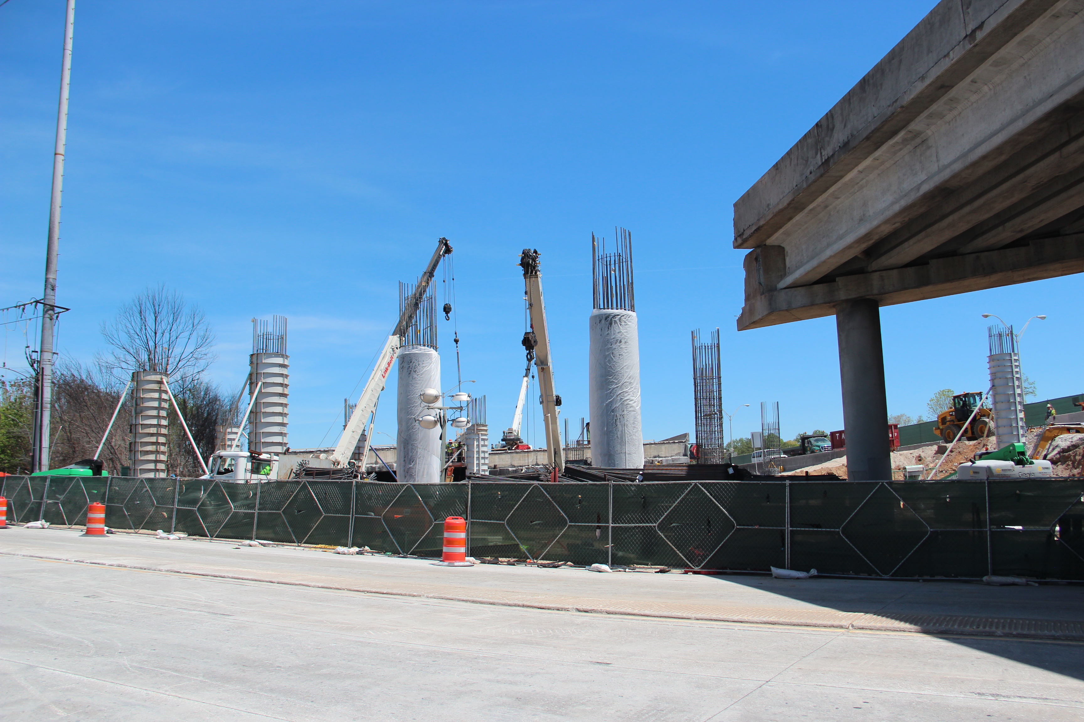 Repair work on the I-85 bridge over Piedmont Road